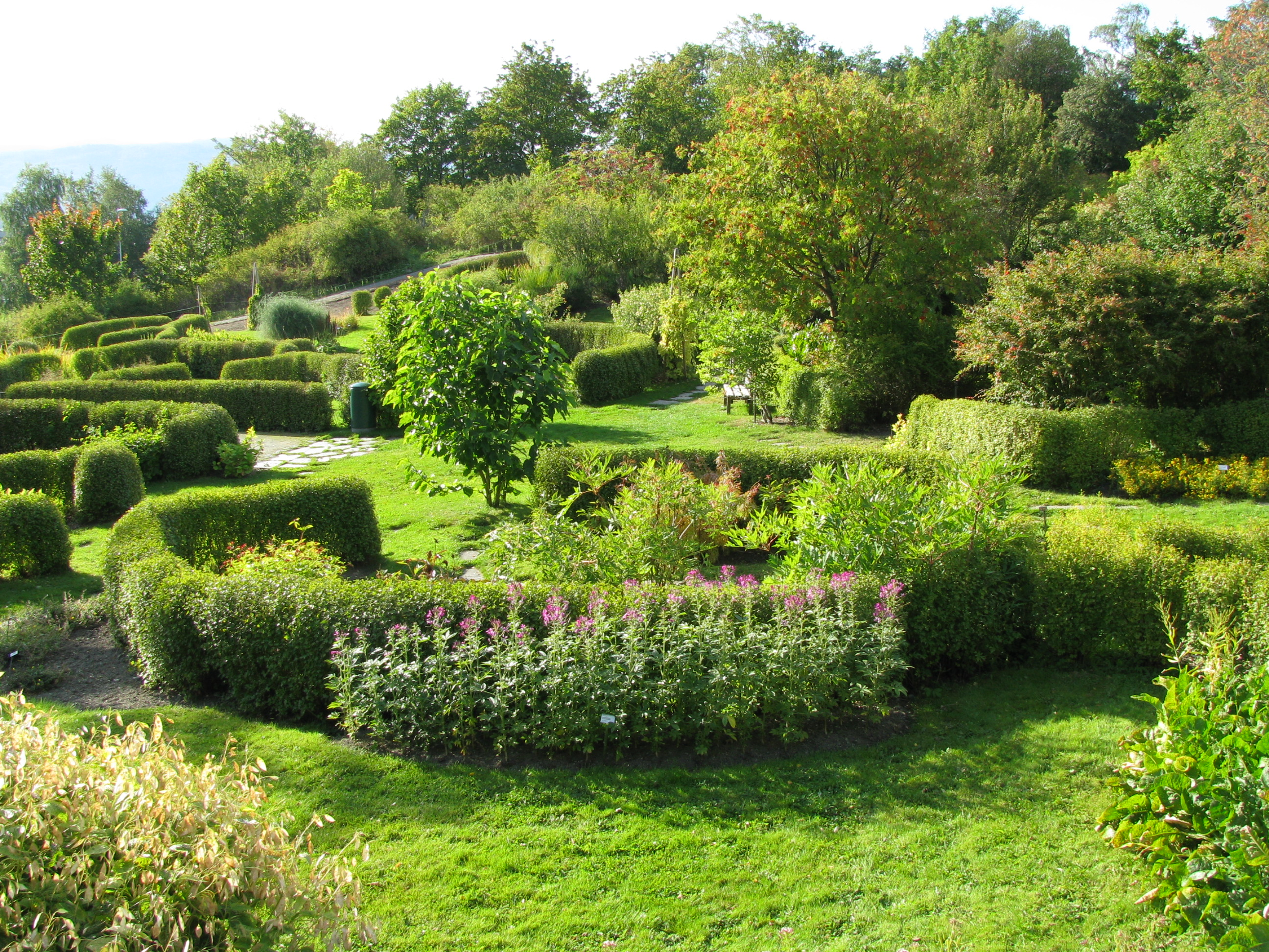 Part of Ringve Botanical Garden, Trondheim, Norway; mid-September.